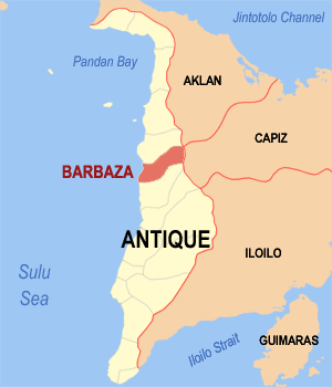 Map of Antique showing the location of Barbaza